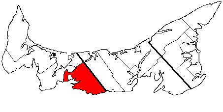 Adapted from existing Prince Edward Island election results maps to depict a specific electoral district.